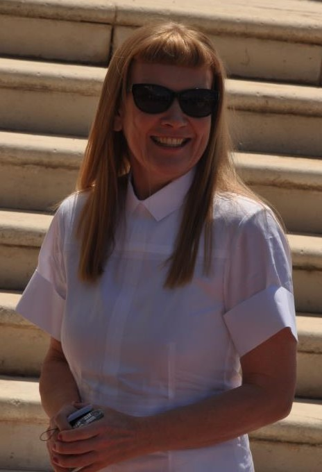 Andrea Arnold at the Cannes Film festival